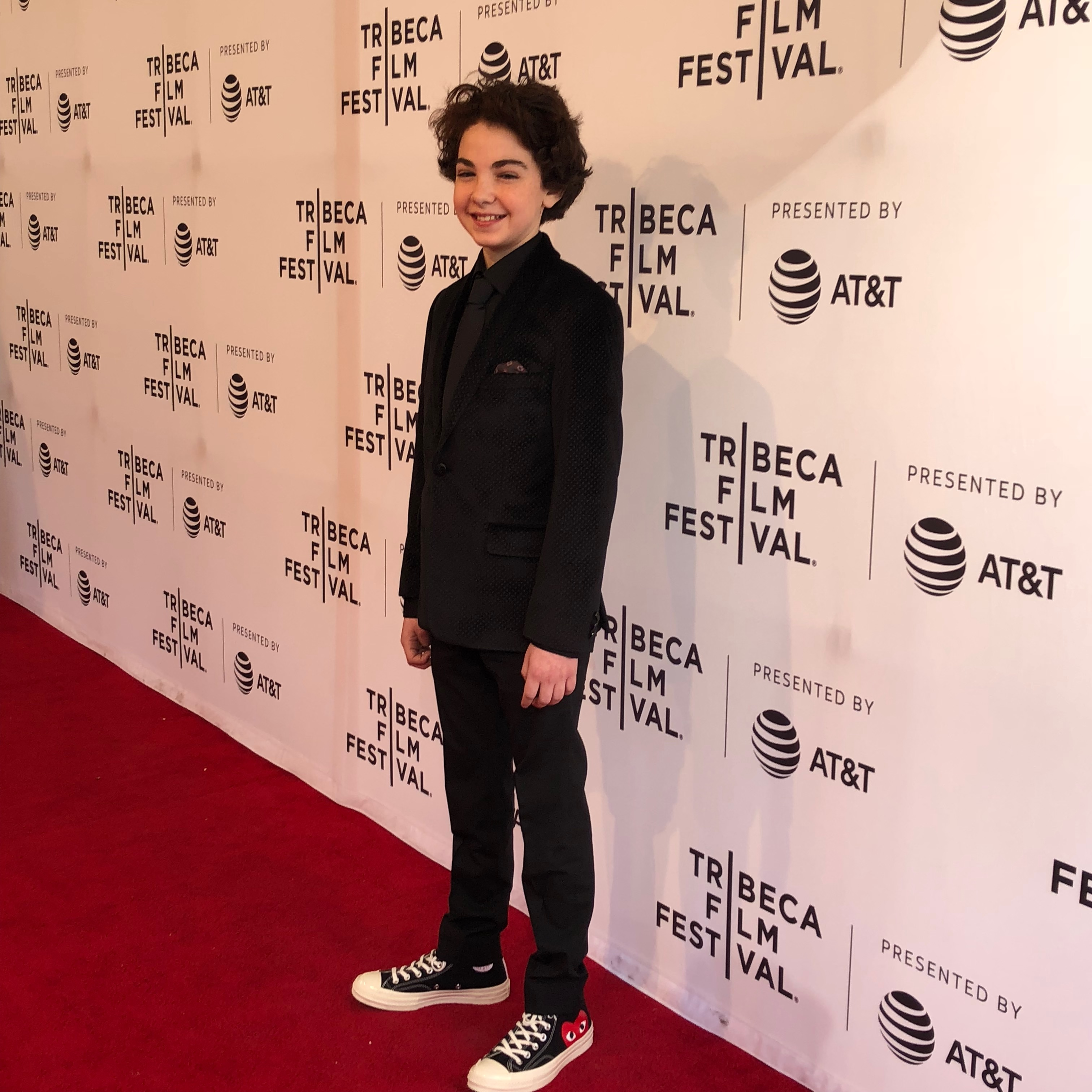 Sammy Voit at Tribeca Film Festival